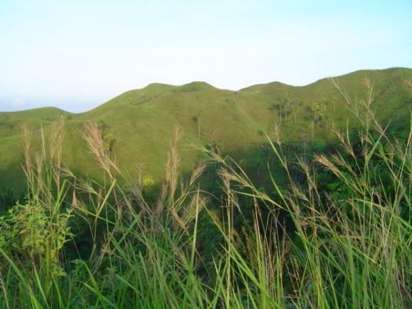 Green grass covering mountains situated in Maasin City, Southern Leyte, Philippines.